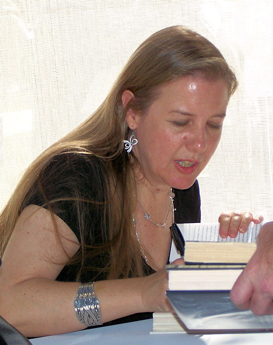 Janet Fitch at the 2006 Texas Book Festival, Austin, Texas, United States.